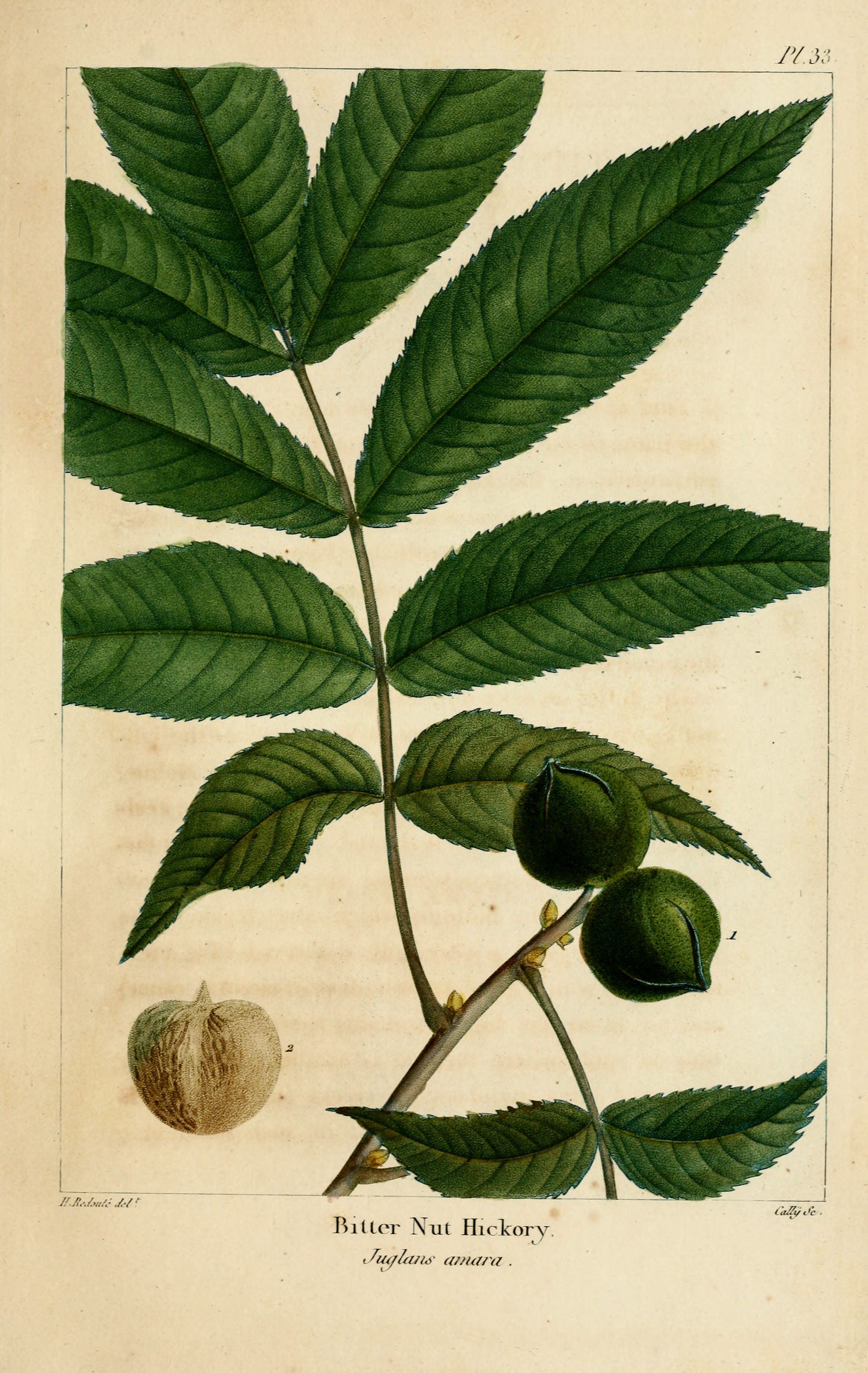 Plate 33 from The North American sylva - Carya cordiformis (caption: Bitter Nut Hickory. Juglans amara)